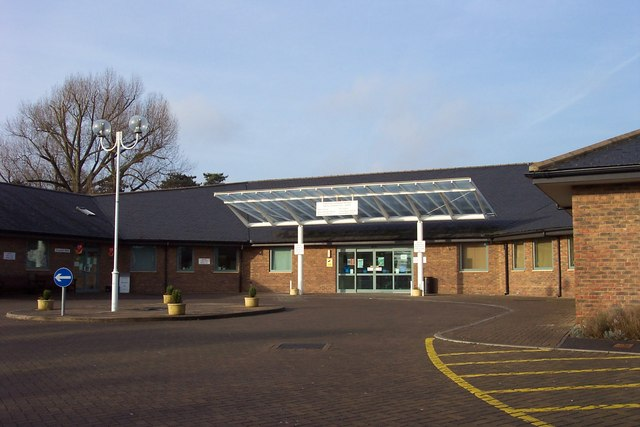 Chepstow Community Hospital Recently built on the site of the old general hospital.